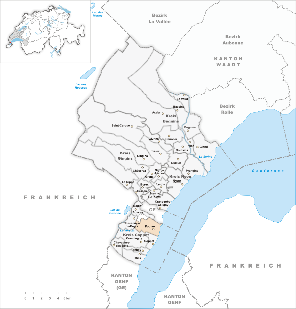 Municipality Founex